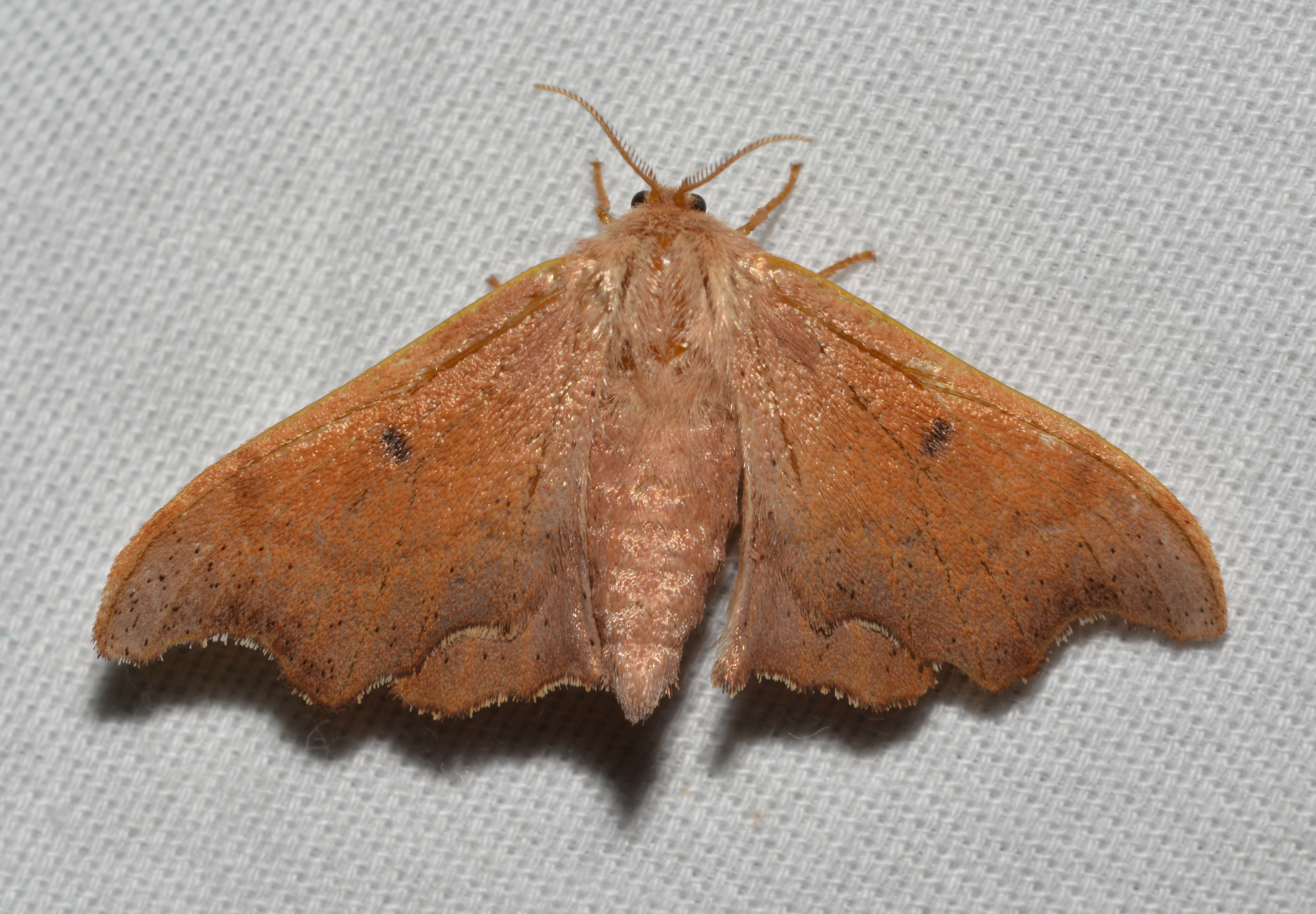 Moths found with Jill Hays, Debbie and Steve Martin in Ozark, Missouri for two nights - 6/10/16 & 6/11/16